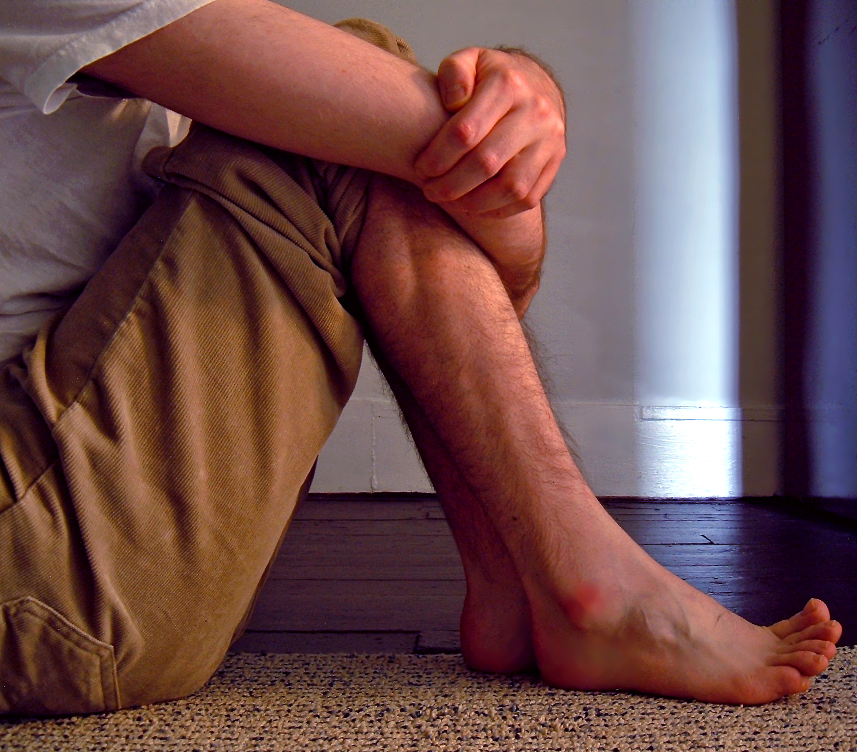 Lighting experiment.